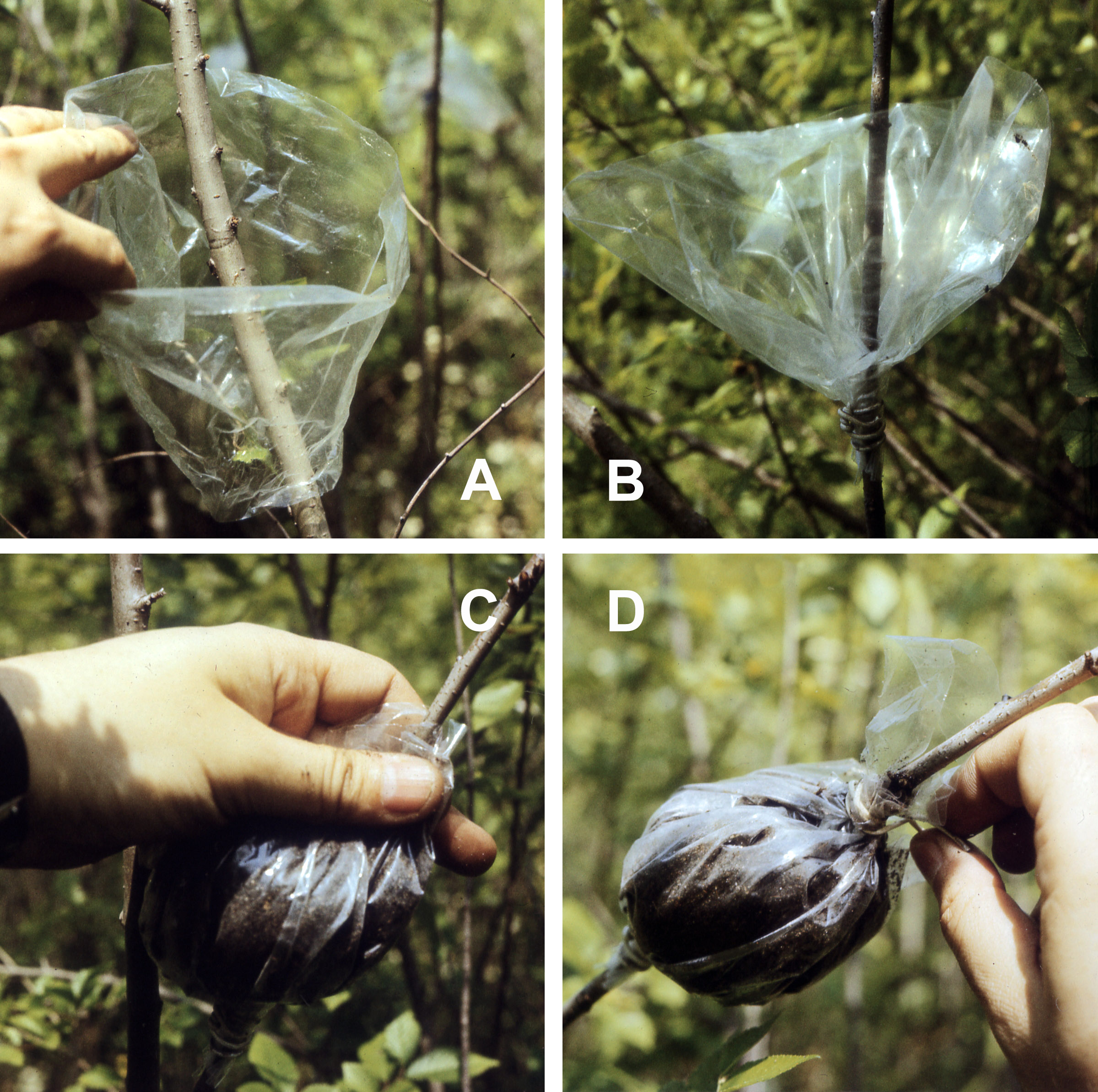 Air layering of Ulmus pumila